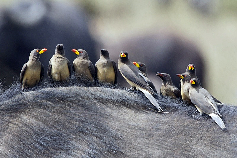 Adult and juvenile Yellow-billed Oxpeckers perching on a large animal in Masai Mara, Kenya.